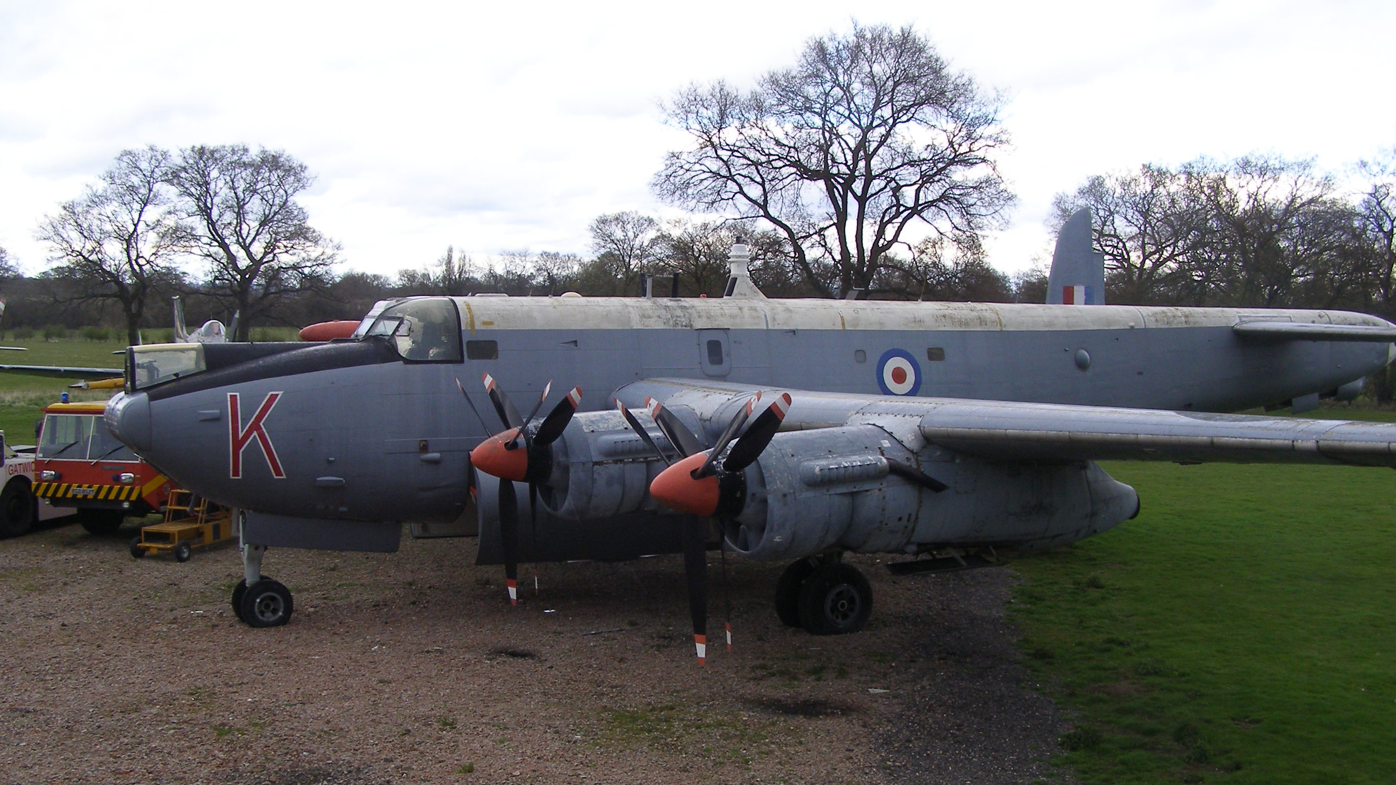 Former Royal Air Force Avro Shackleton MR3 WR974 coded "K" on display at the Gatwick Aviation Museum, England